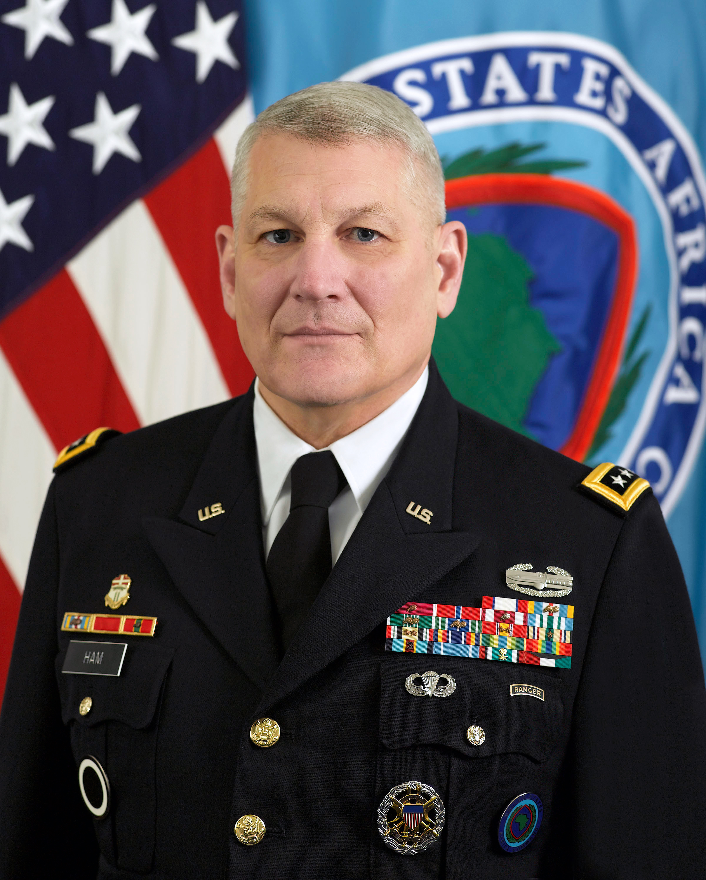 General Carter F. Ham, USA. 2nd Commander, U.S. Africa Command